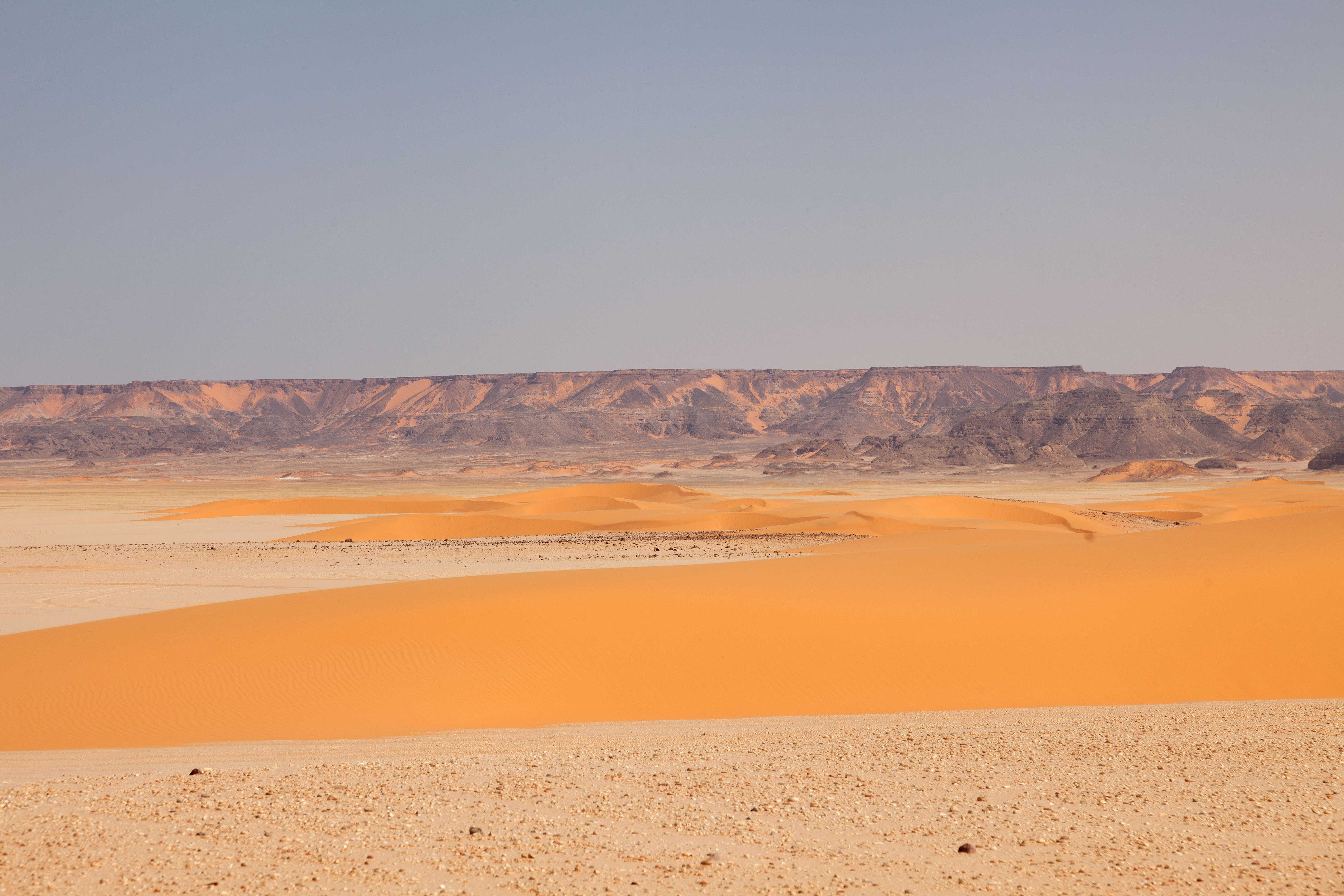 South side of the Gilf Kebir Plateau, Western Desert, Egypt